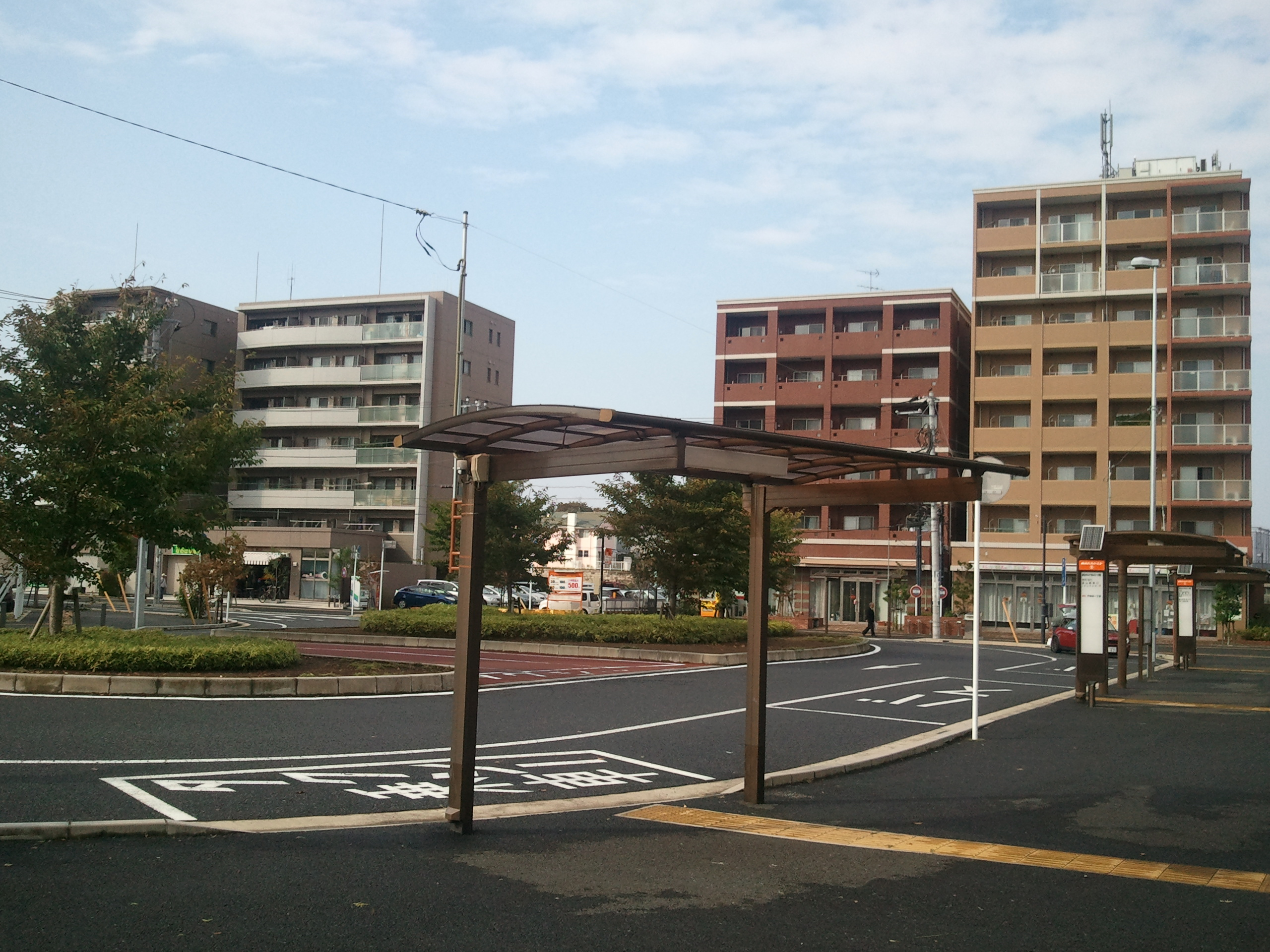 West rotary of Nagareyama-centralpark Station on the Tsukuba Express